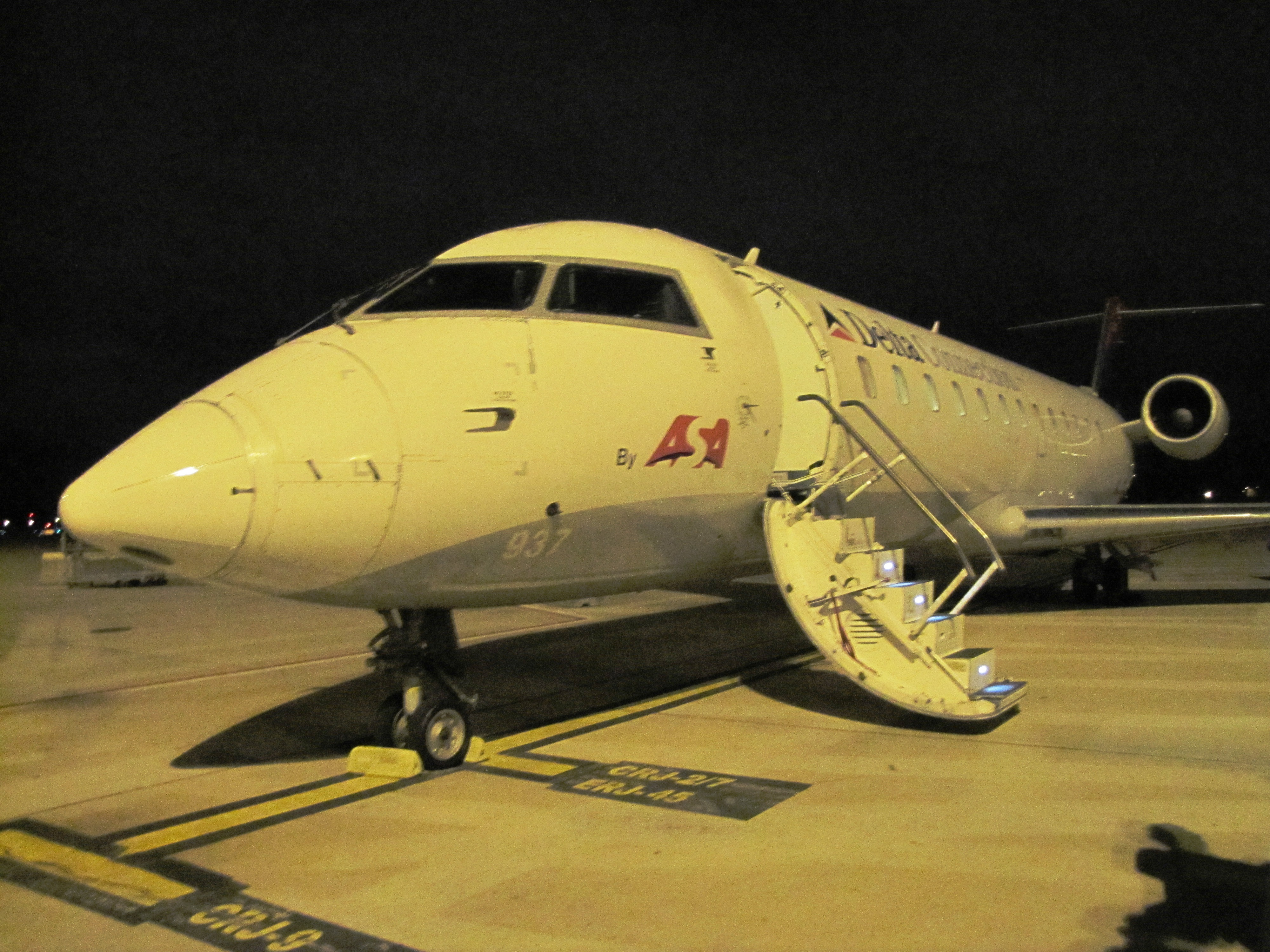 An Atlantic Southeast Airlines Bombardier CRJ-200 at Memphis International Airport